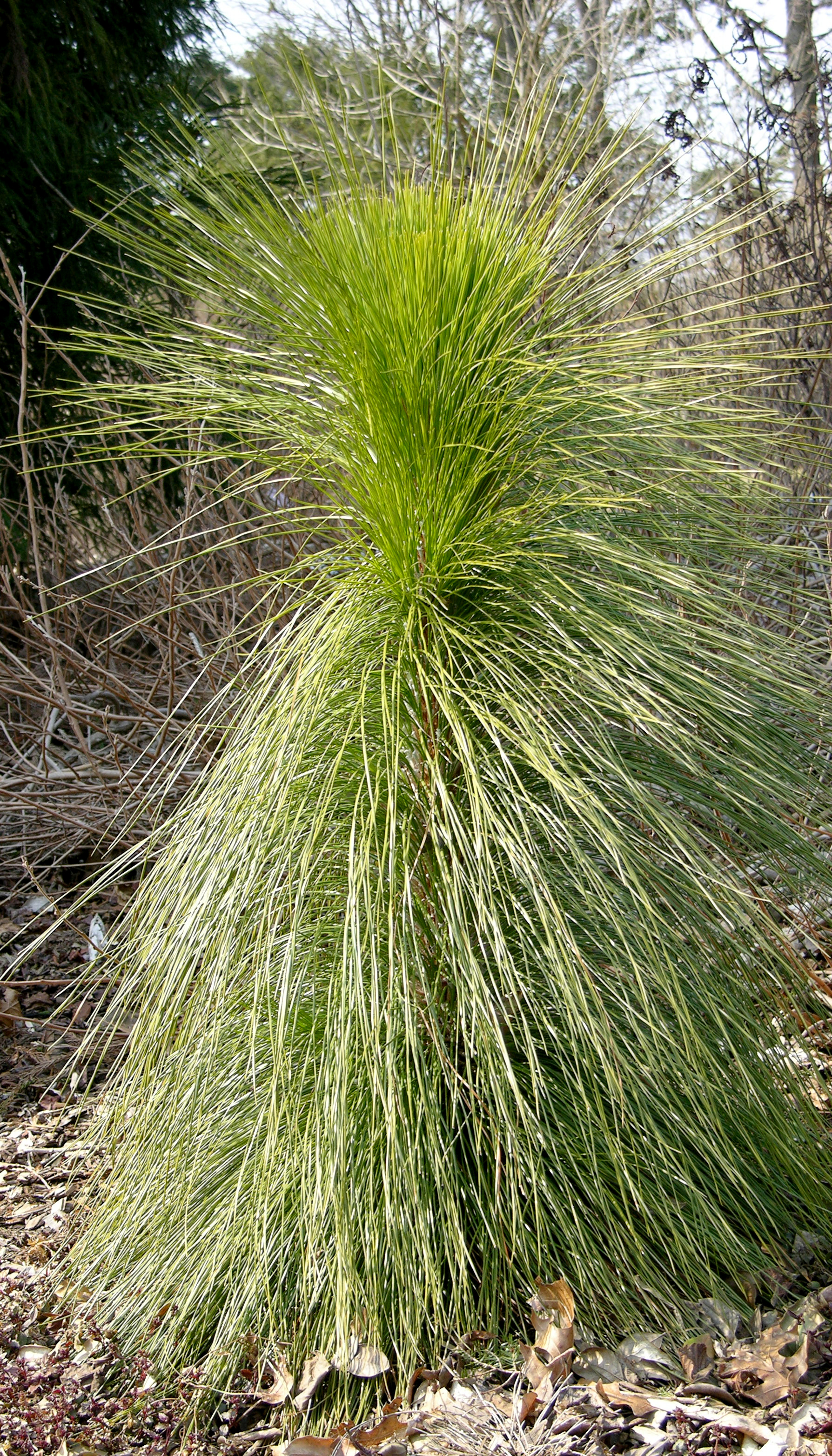 Photograph of a sapling of the Longleaf Pineen (Pinus palustris en ). Photo taken at the Tyler Arboretum where it was identified.